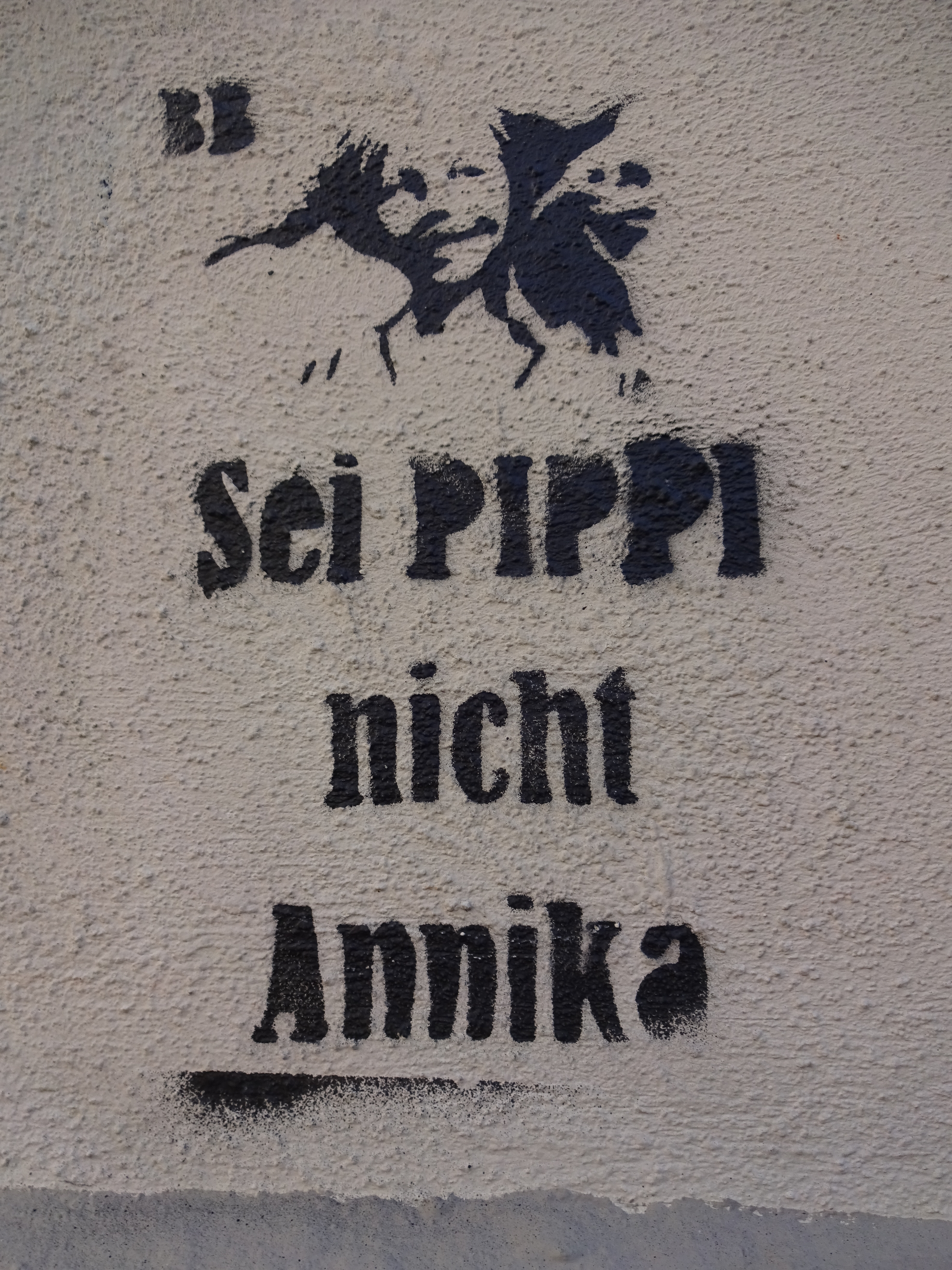 Stencil graffiti in Munich, Germany: "Be Pippi, not Annika" (reference to Astrid Lindgren's "Pippi Longstocking"